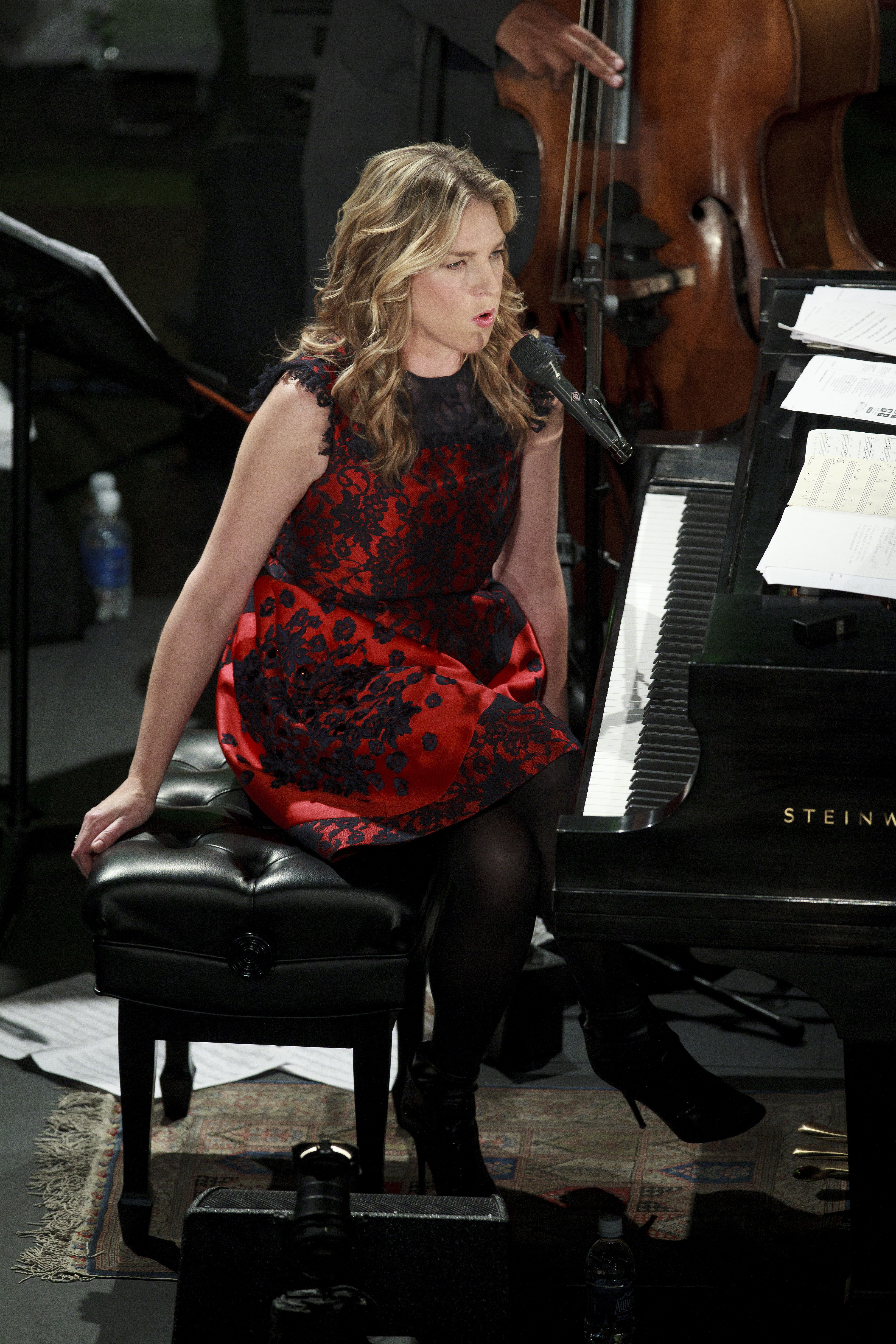 Diana Krall live at The Paramount Theater in Charlottesville, Virginia